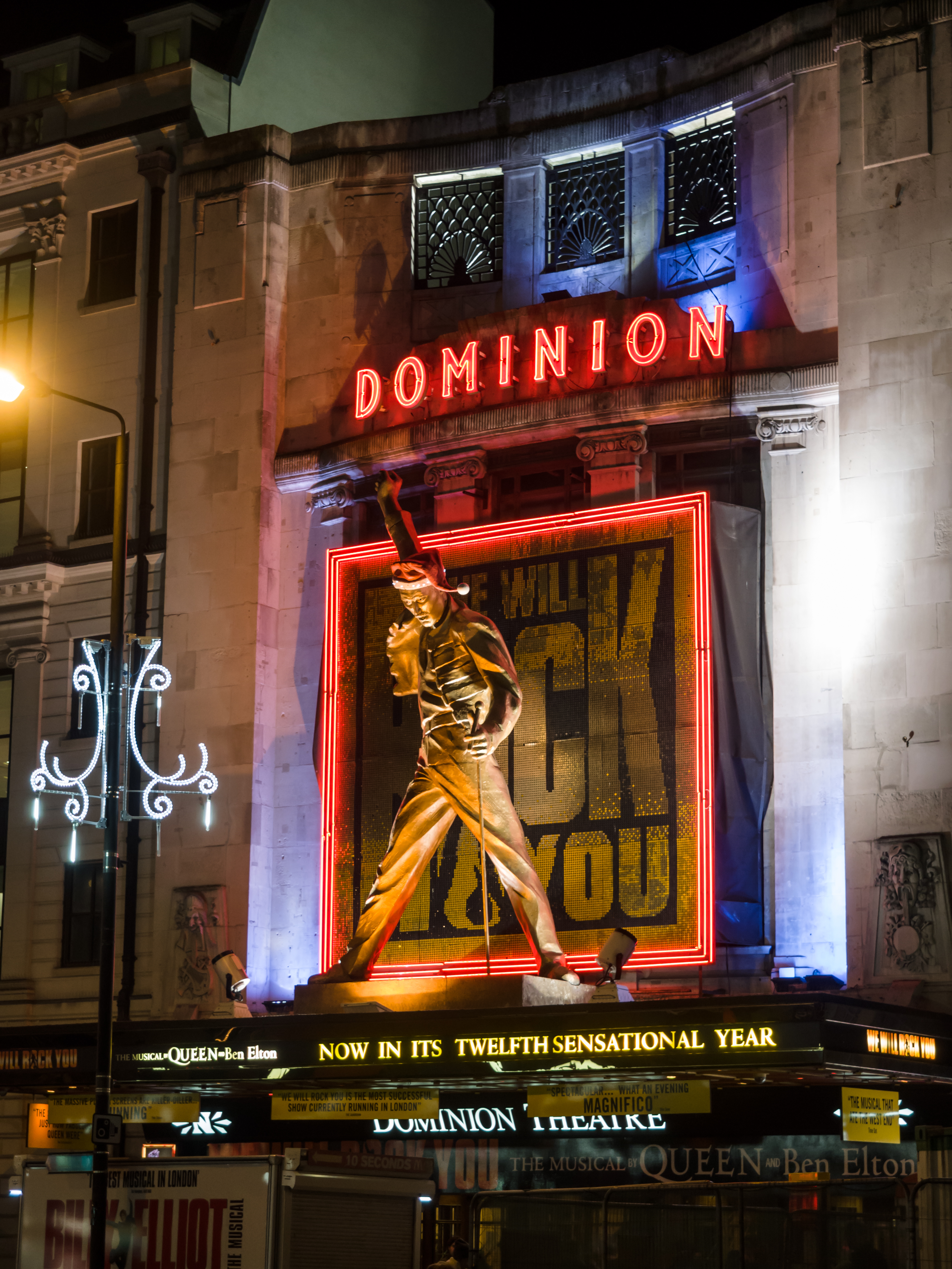 Tottenham Court Road